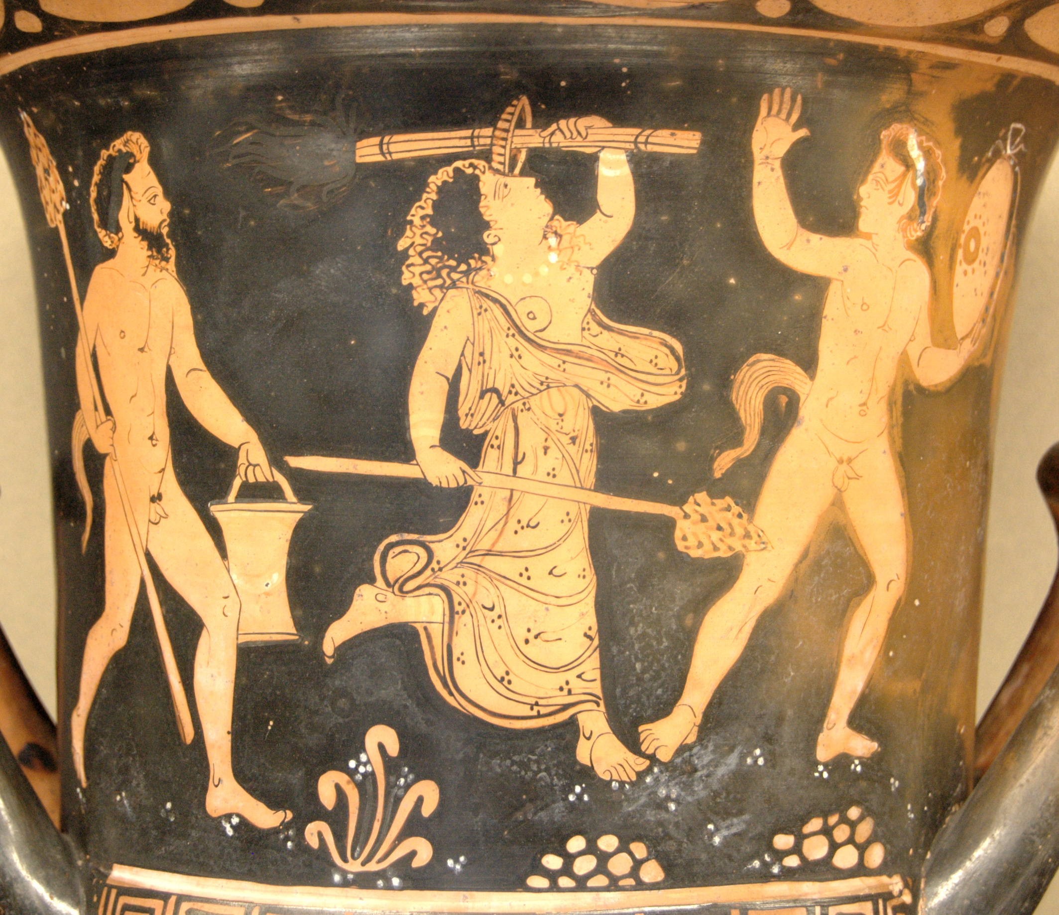 Two sileni and a maenad. Side A from an Apulian (Tarentian?) red-figure kalyx-krater, 380–370 BC.